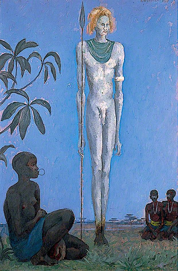 Richard Wyndham - A Dinka Herdsman